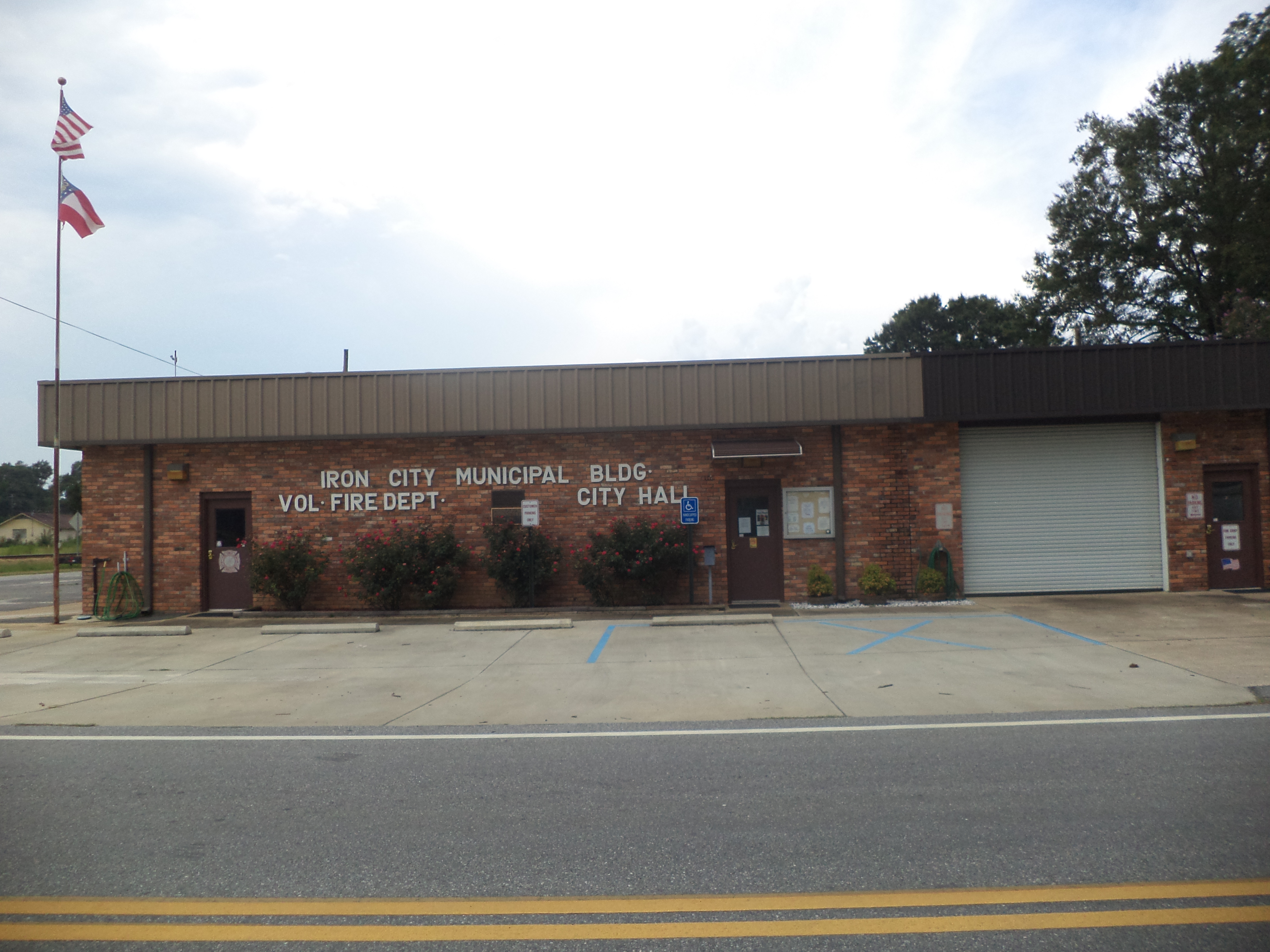 Iron City Municipal Building, N Church St., Iron City, Seminole County, Georgia